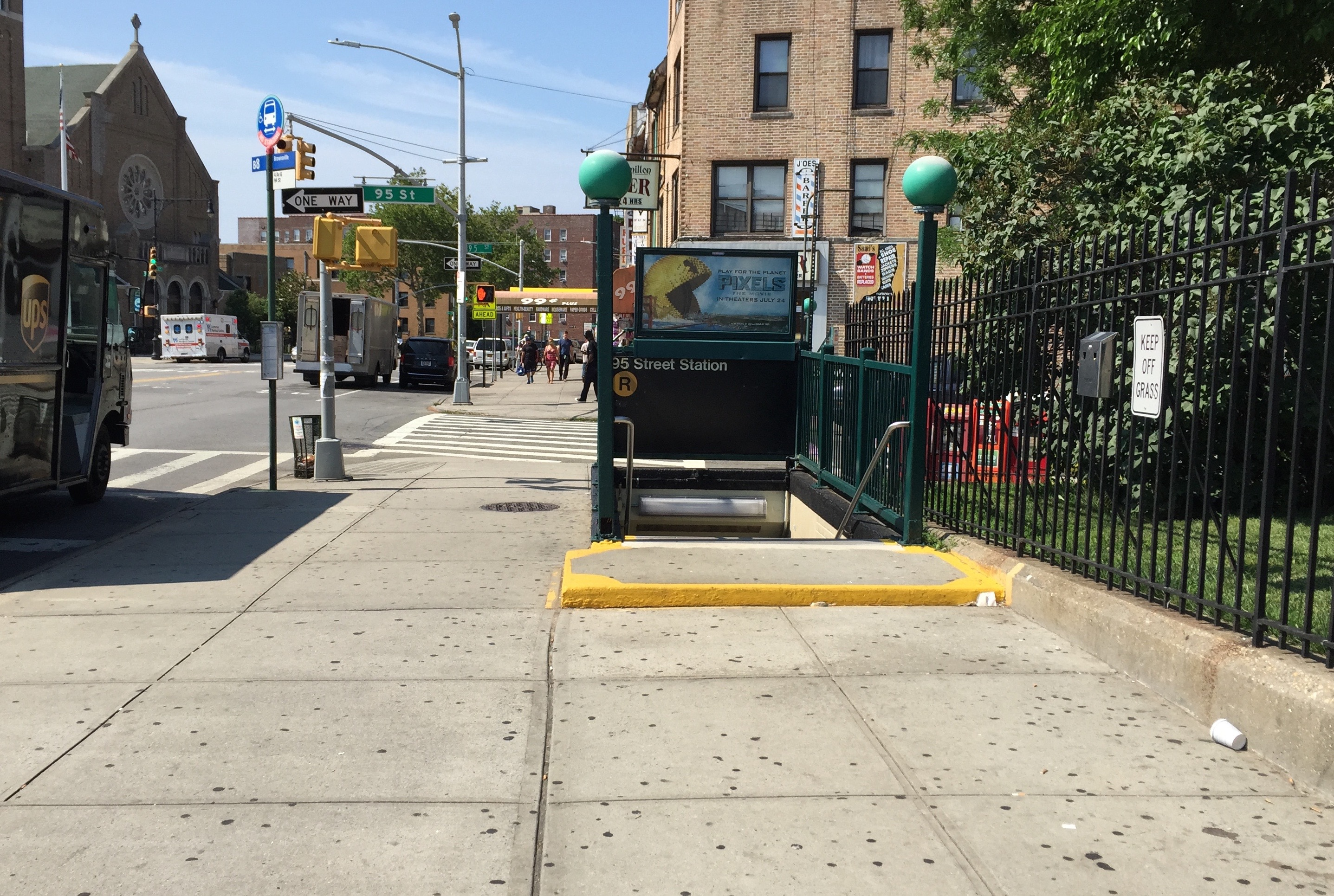 NW Corner stairs at 95th Street on the R.